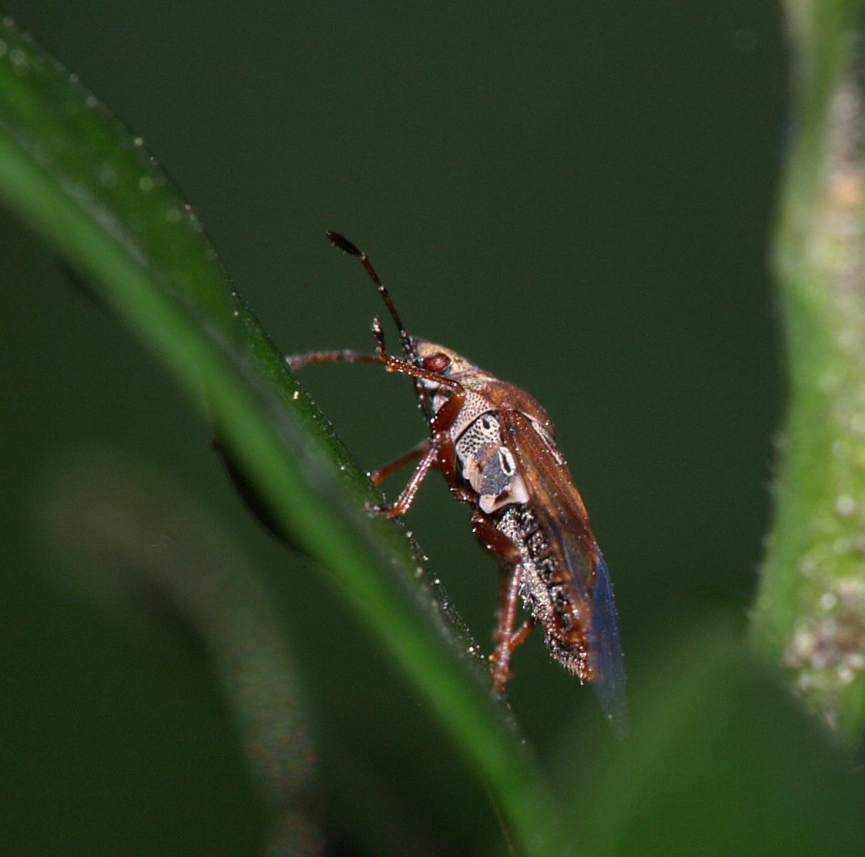 Kleidecerys resedae from lateral, in the Botanical Garden (Flora) of Cologne, Germany.